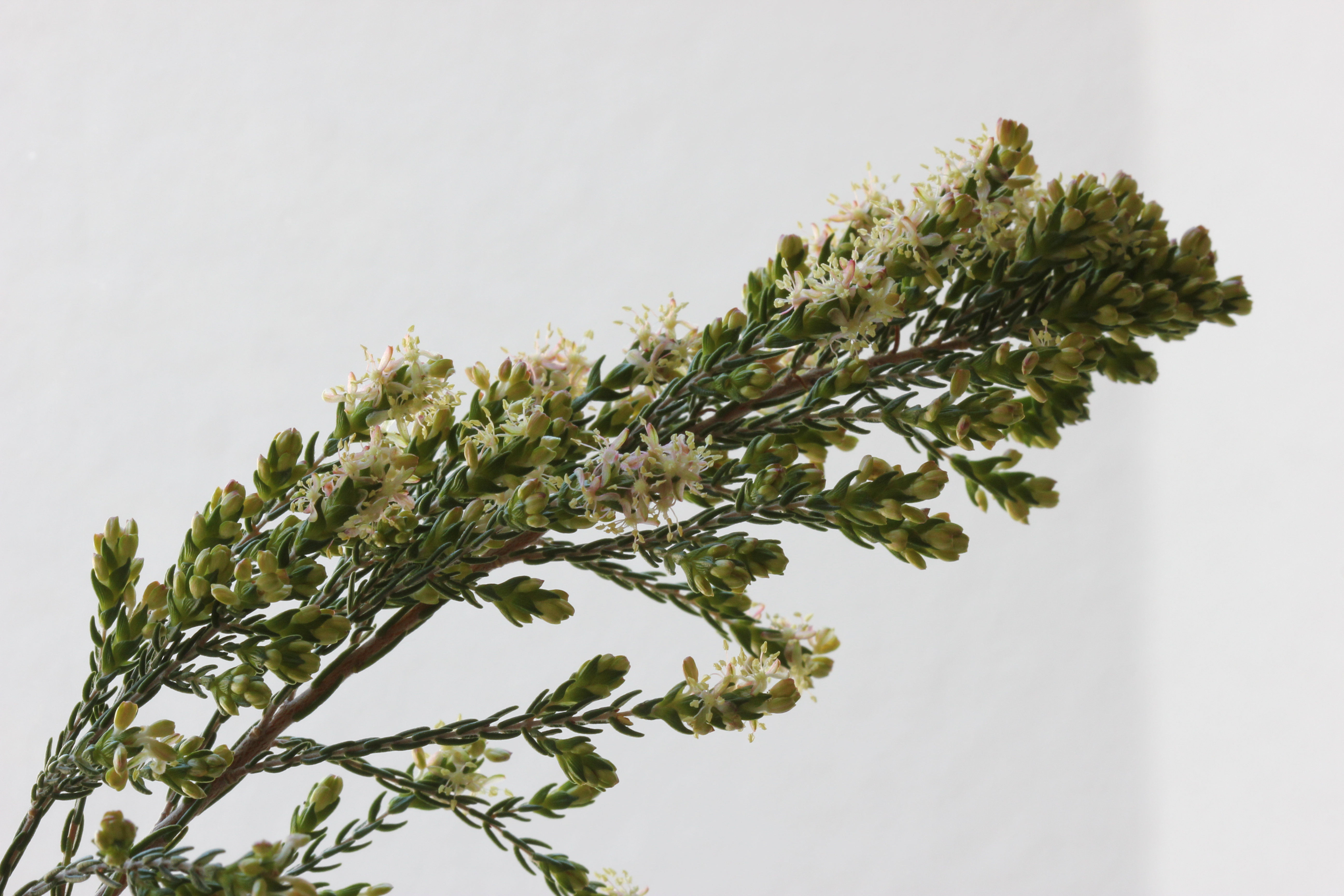 Thymelaeaceae. Unidentified Passerina species. Sprig showing details of flowers